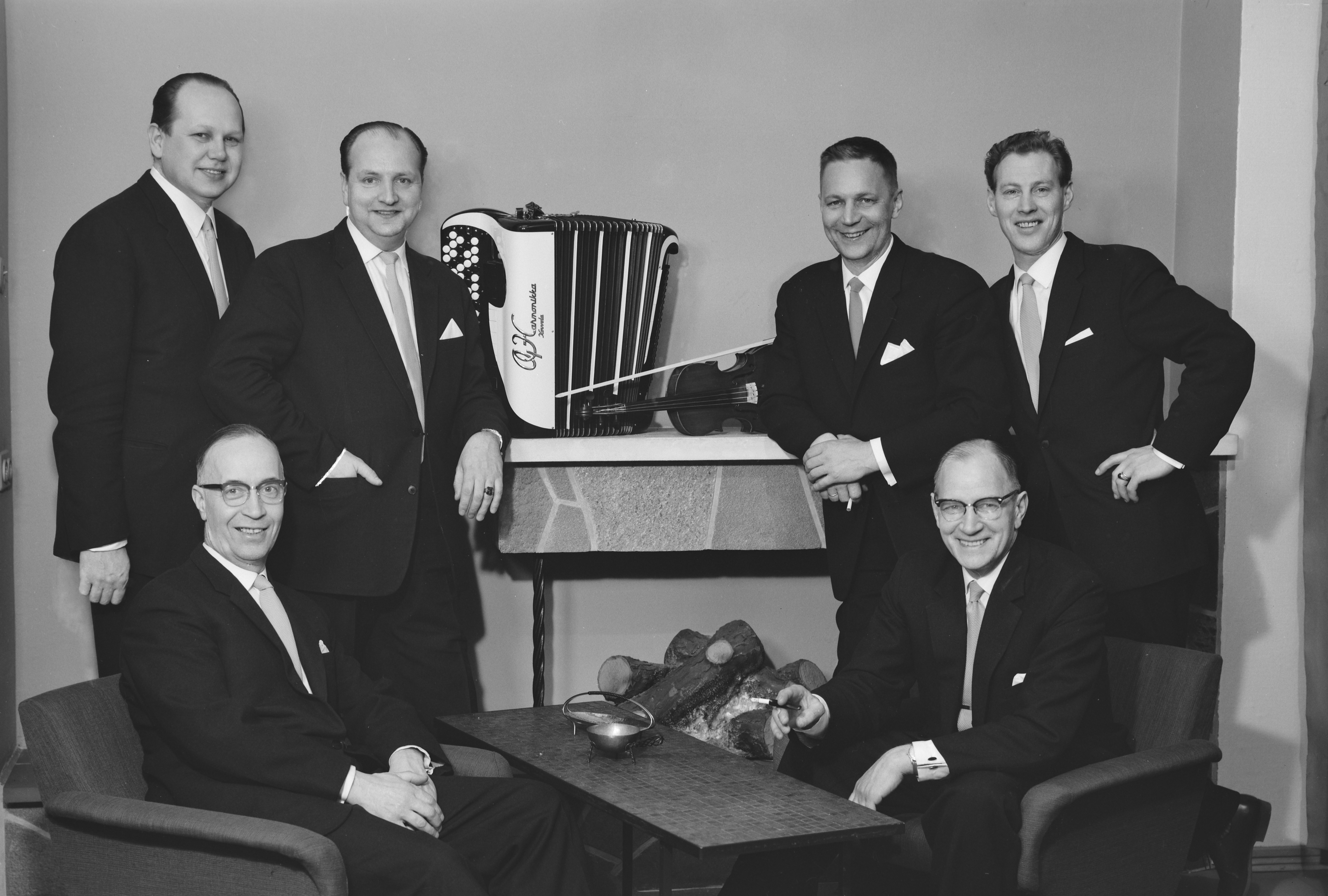 Photograph of the Finnish music ensemble Yrjö Saarnion polkkayhtye.